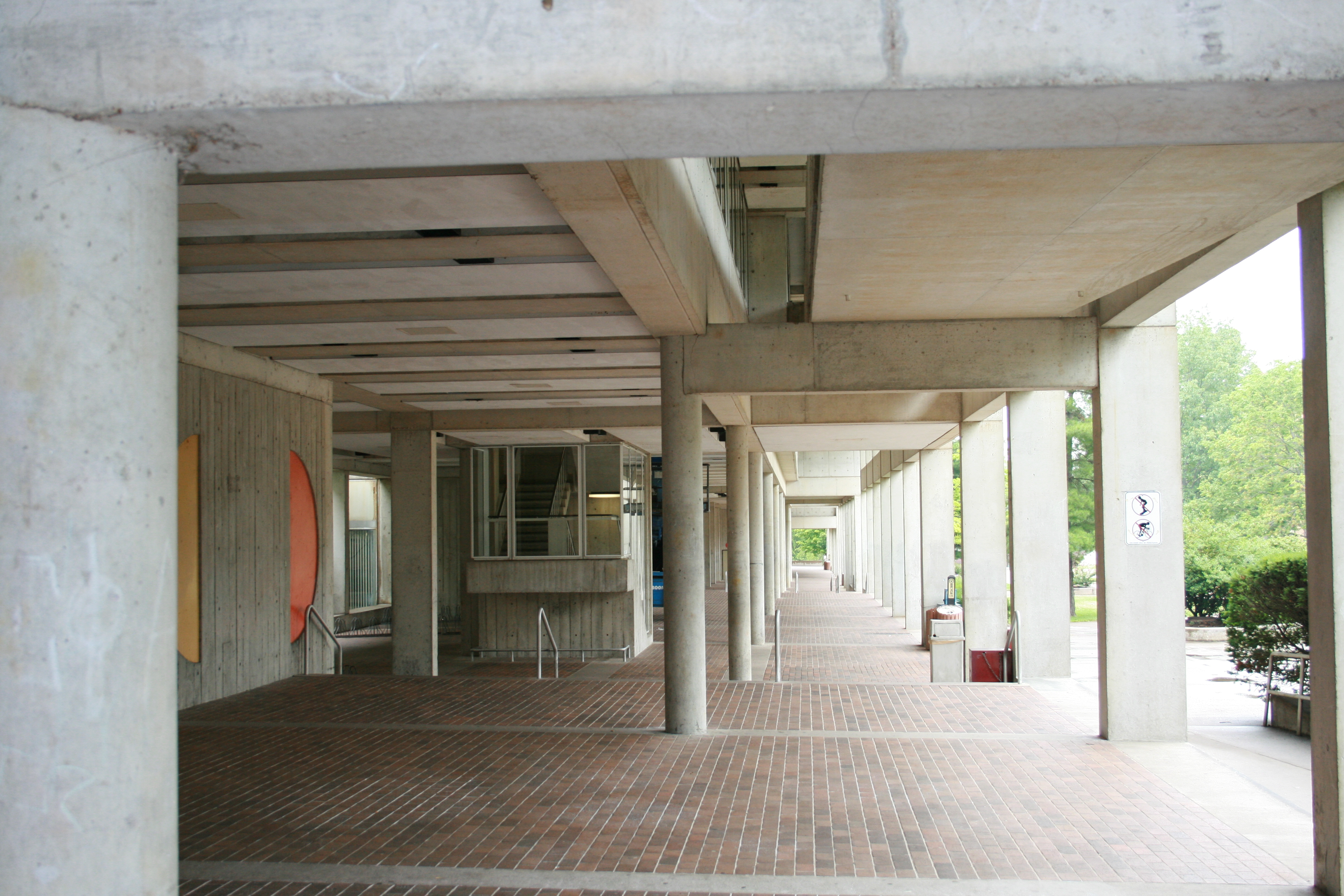 View under Faner hall at Southern Illinois University Carbondale, facing North.